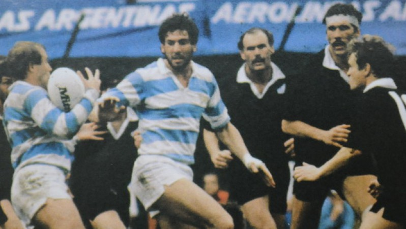 Los Pumas - All Blacks second test match played in Buenos Aires, Argentina. Tomás Petersen (left) carries the ball while Ernesto Ure (right) follows the action.